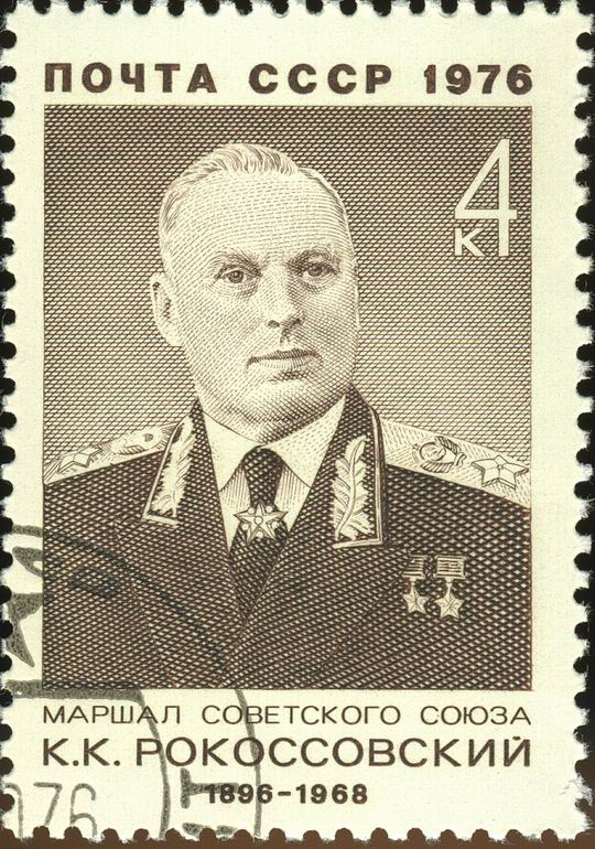 A USSR stamp, Military persons of the USSR